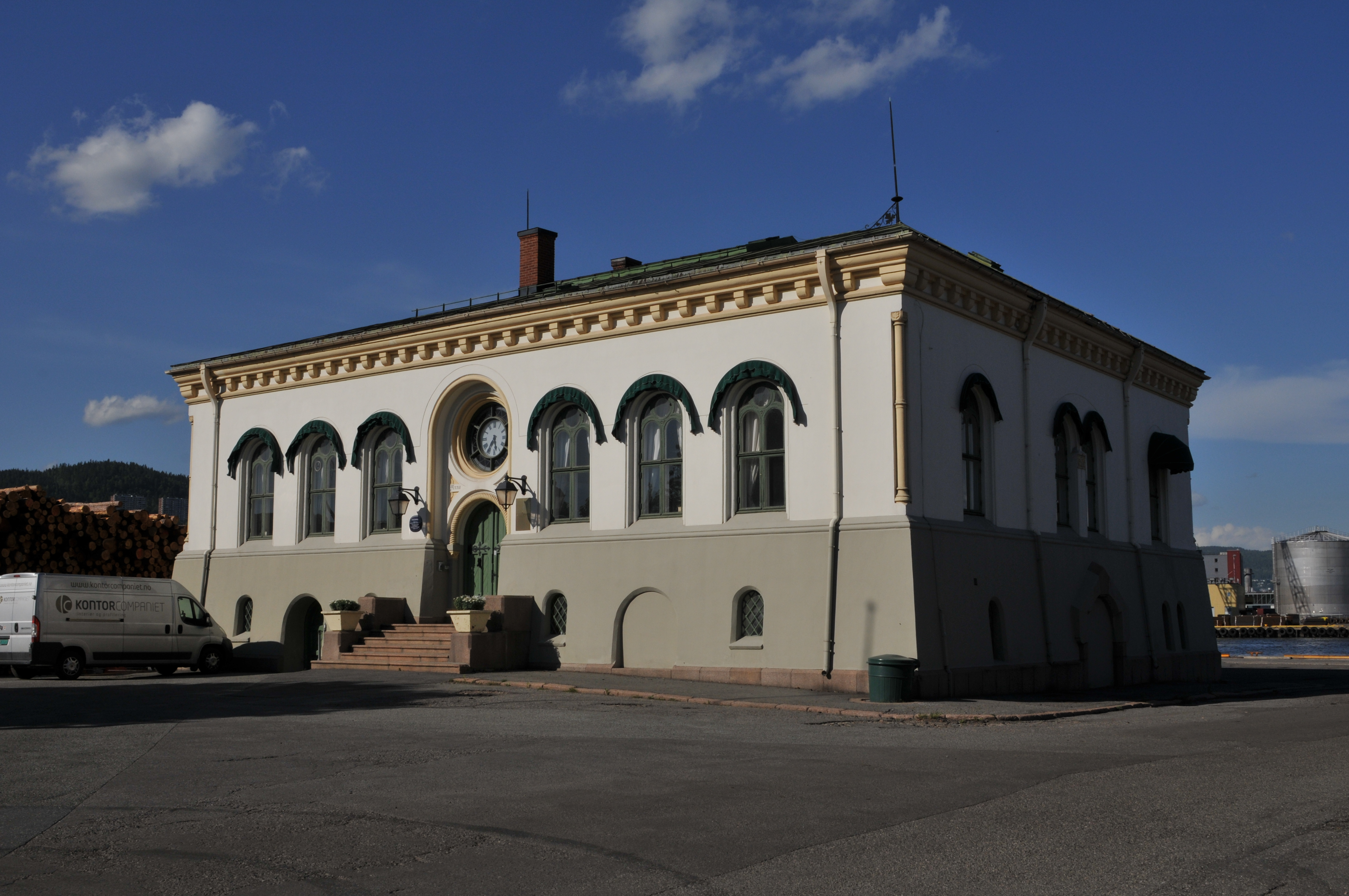 Drammen tollsted - custom house - Main building from land side, main enterance